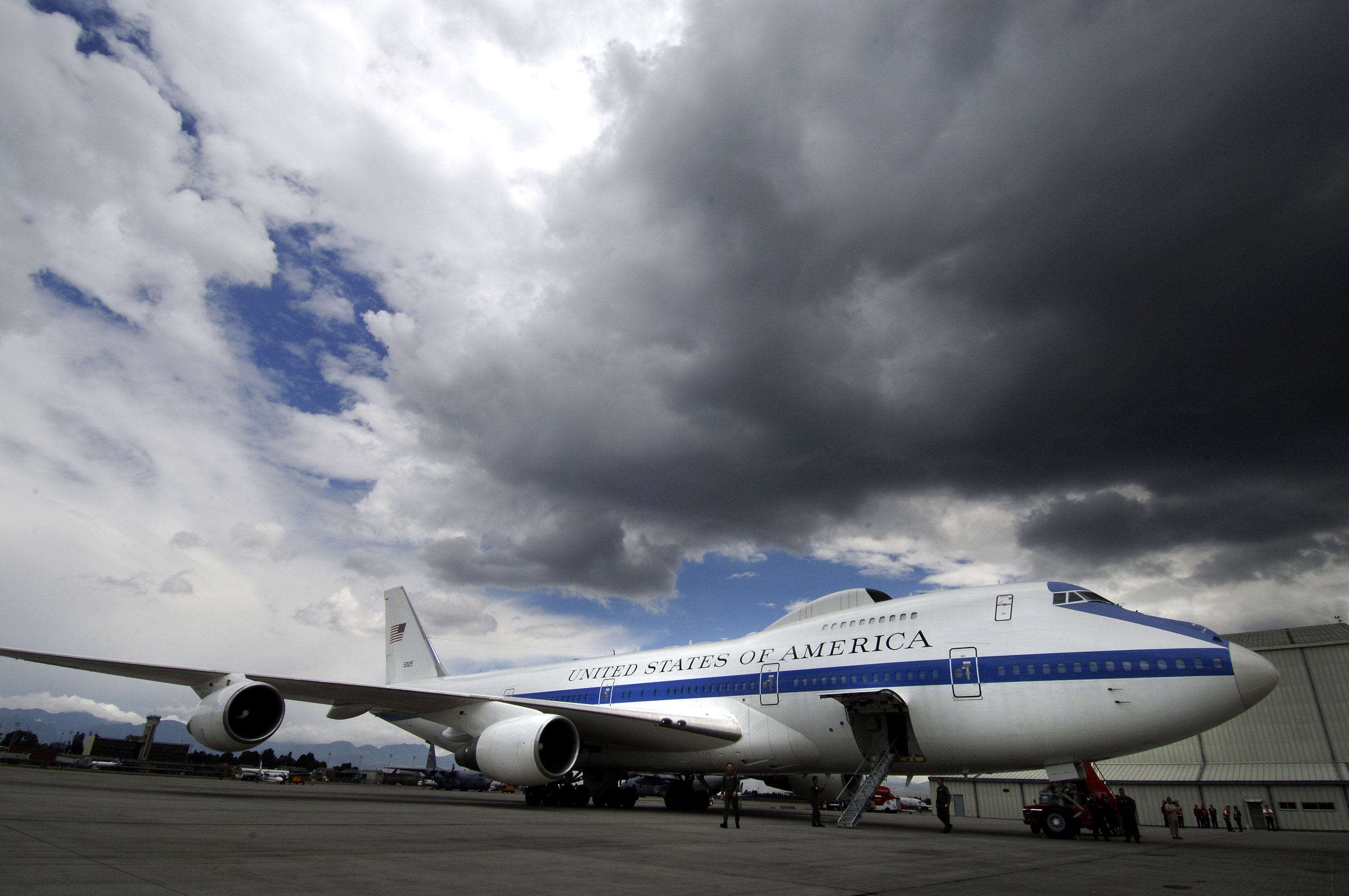 A Boeing E-4B at Bogota Airport in Colombia